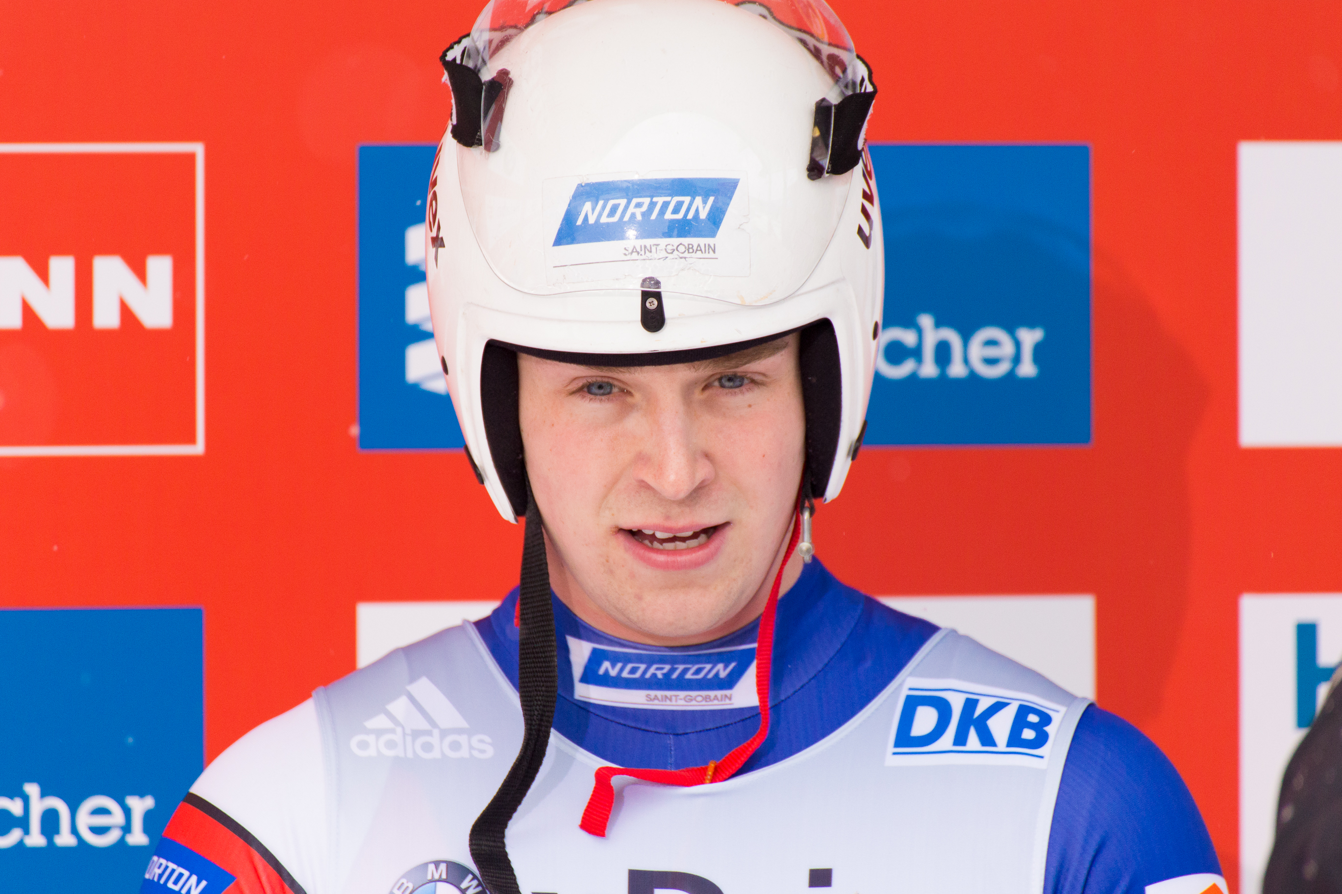 Luge world cup Oberhof 2016-01-17